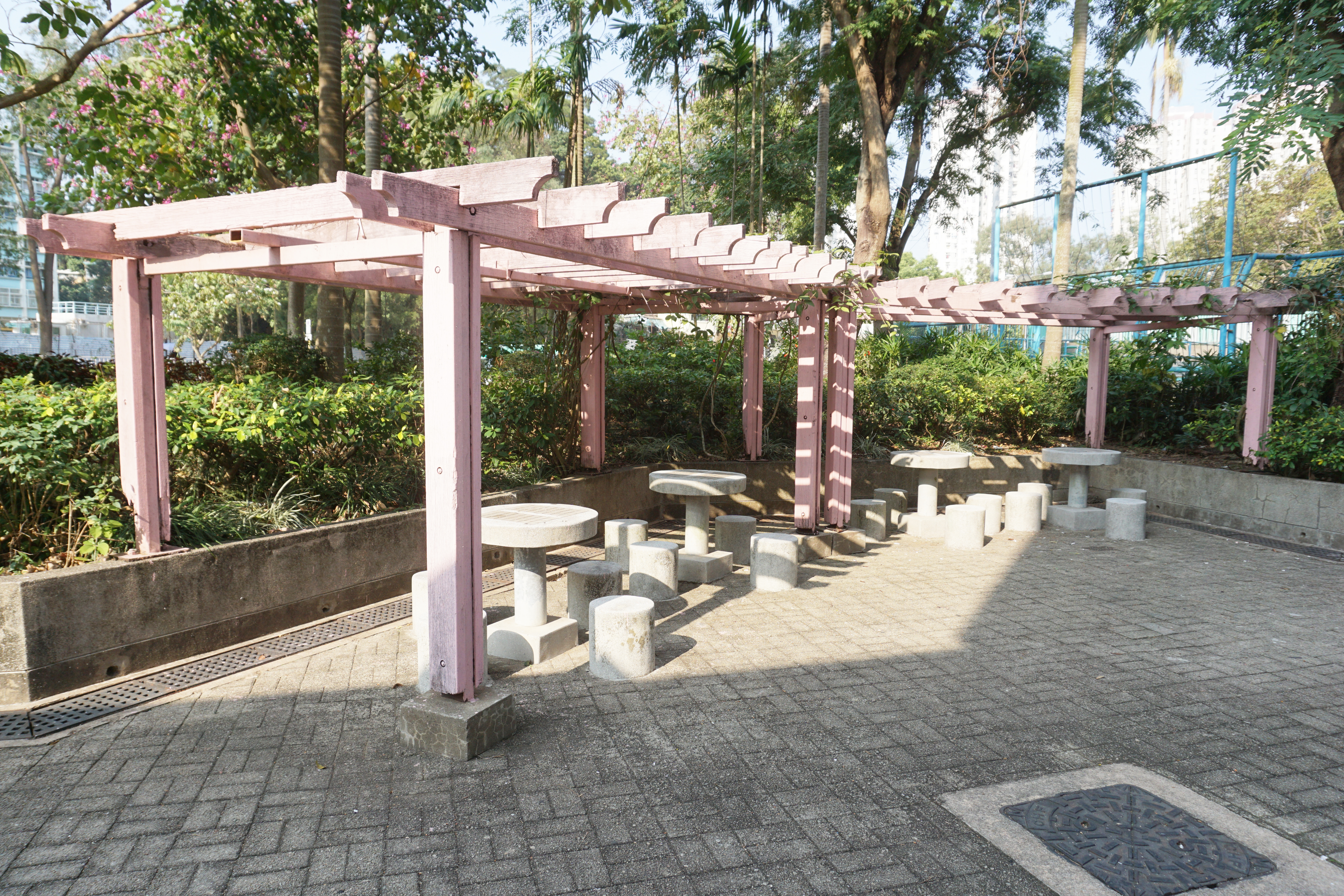 Wan Tau Tong Estate in Tai Po, Hong Kong.